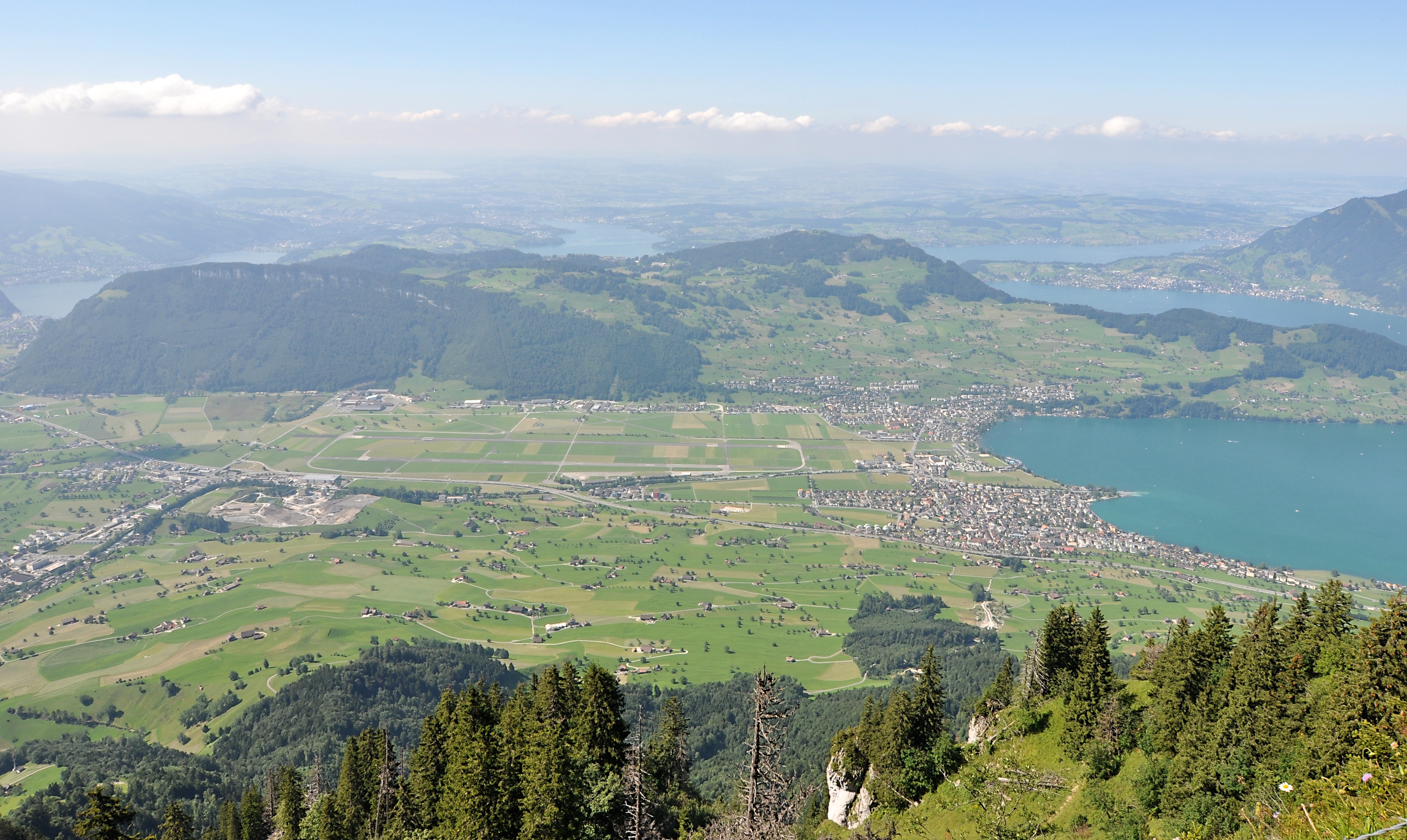 View from top of the Buochserhorn in northern direction. On the right side in the foreground Buochs and Ennetbürgen. In the centre the Bürgenstock, surrounded by various parts of the Lake Lucerne.